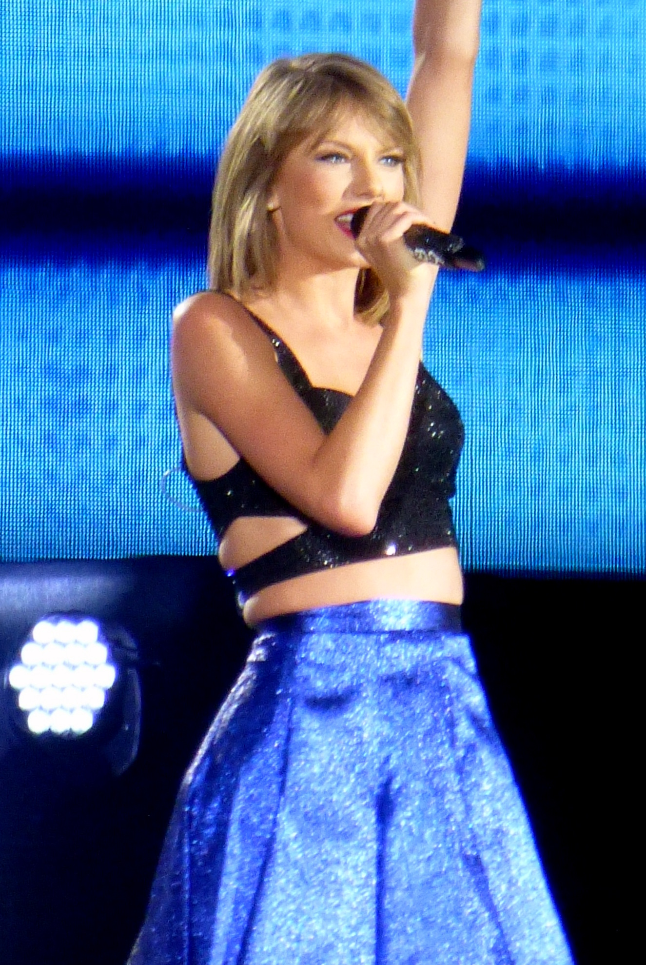 Taylor Swift 1989 Tour at Ford Field in Detroit, 5/30/15.